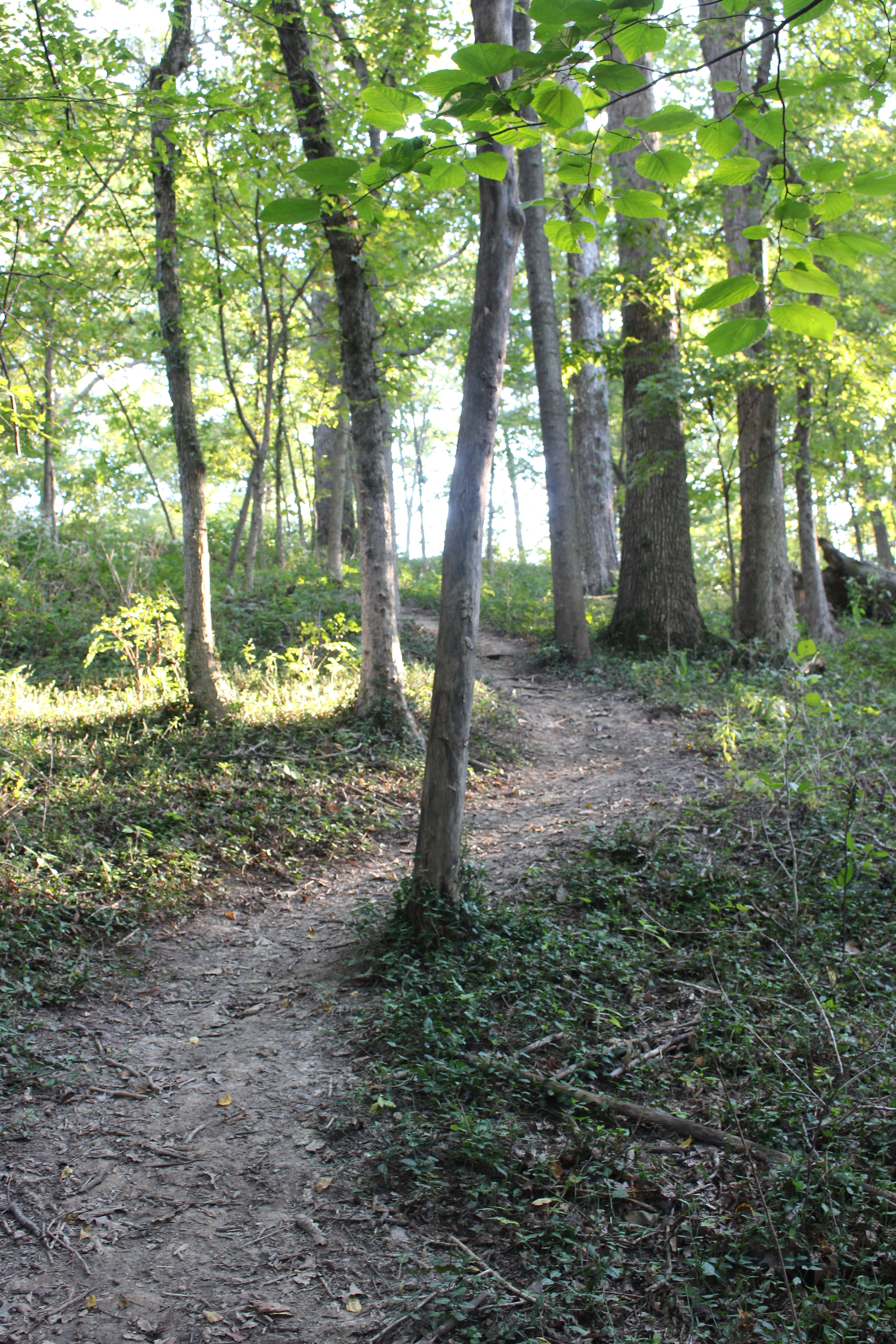 Phantom Forest, Saint Louis, Missouri, USA